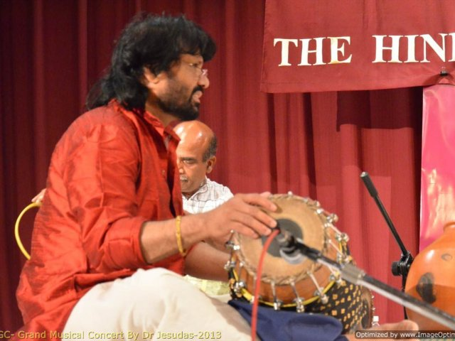 T S Nandakumar self135